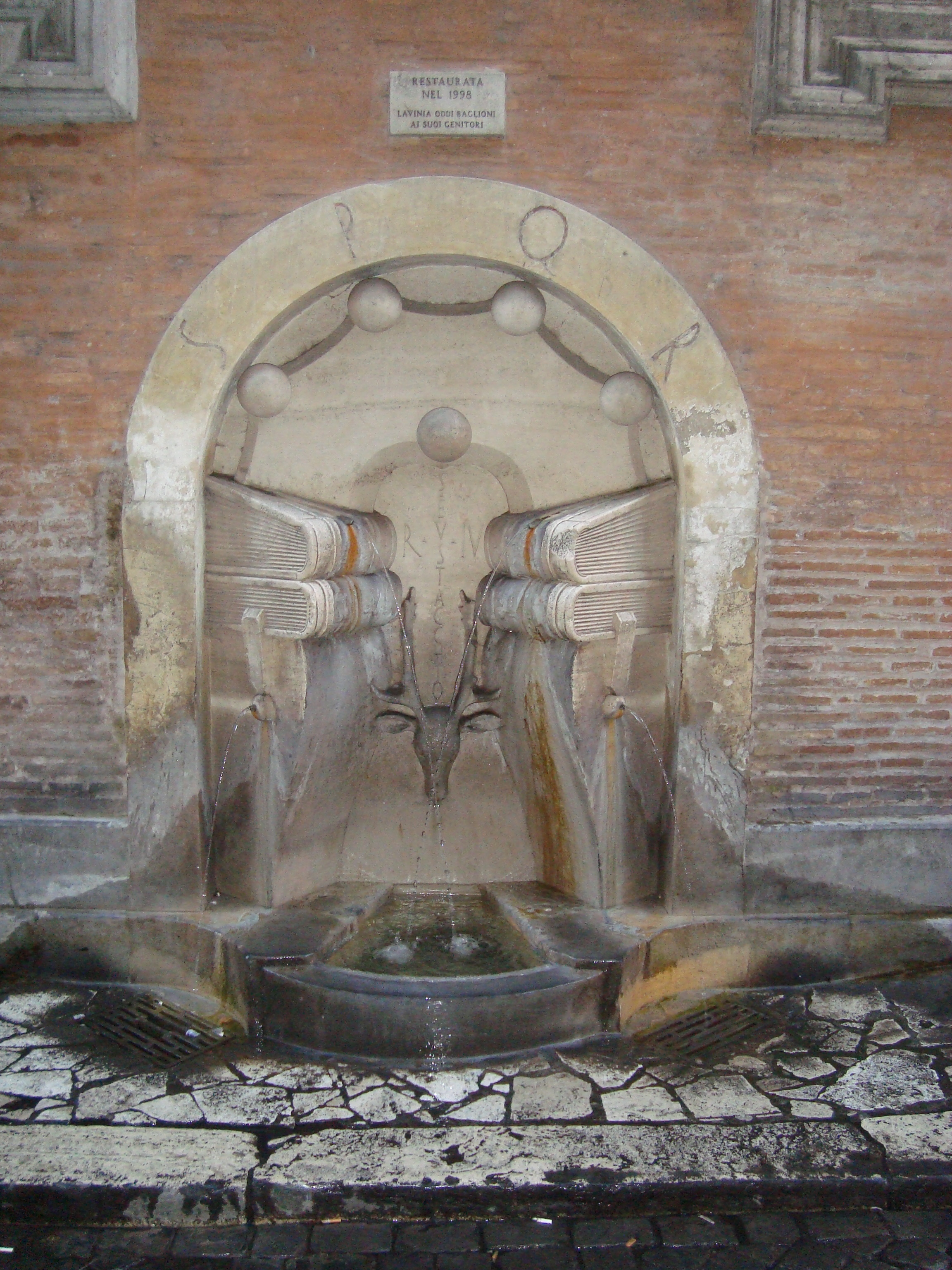 Fontana dei Libri in Rome at rione Sant'Eustachio. Work by Pietro Lombardi